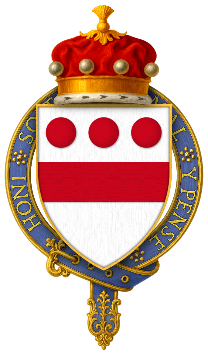 Sir Walter Devereux, 7th Baron Ferrers of Chartley, KG HOPE, W. H. St. John, The Stall Plates of the Knights of the Order of the Garter 1348 – 1485: A Series of Ninety Full-Sized Coloured Facsimiles with Descriptive Notes and Historical Introductions, Westminster: Archibald Constable and Company LTD, 1901. “ Plate LXXVII - Sir Walter Devereux, Lord Ferrers, K.G. 1470-1485… with the arms, silver a fess and three roundels in chief gules... ” Lord Ferrers' stall plate remains intact within the twenty-fourth stall, on the Prince's side of the chapel.